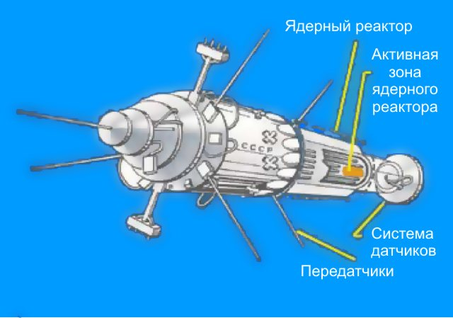 Схема спутника Космос-954, Russian version of the Image:Cosmos-954 scheme.jpg